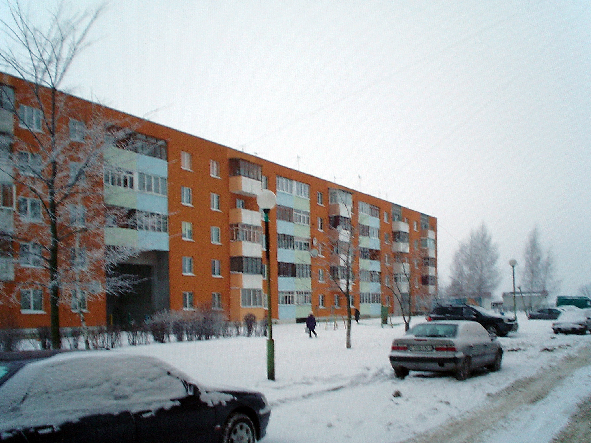 Gatovo in winter